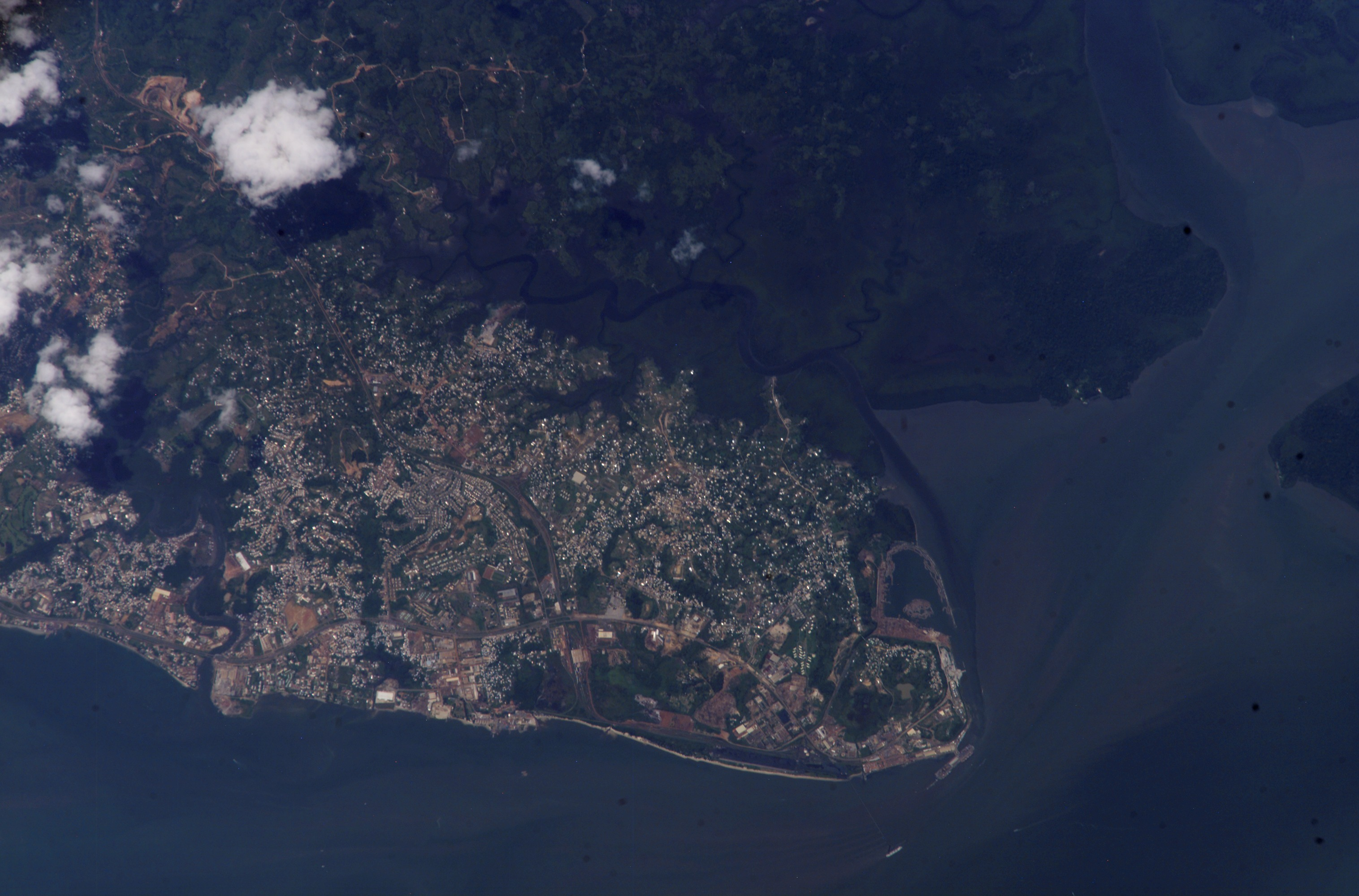 Astronaut Photo of Libreville, Gabon taken from the International Space Station (ISS) during Expedition 14 on April 21, 2007.